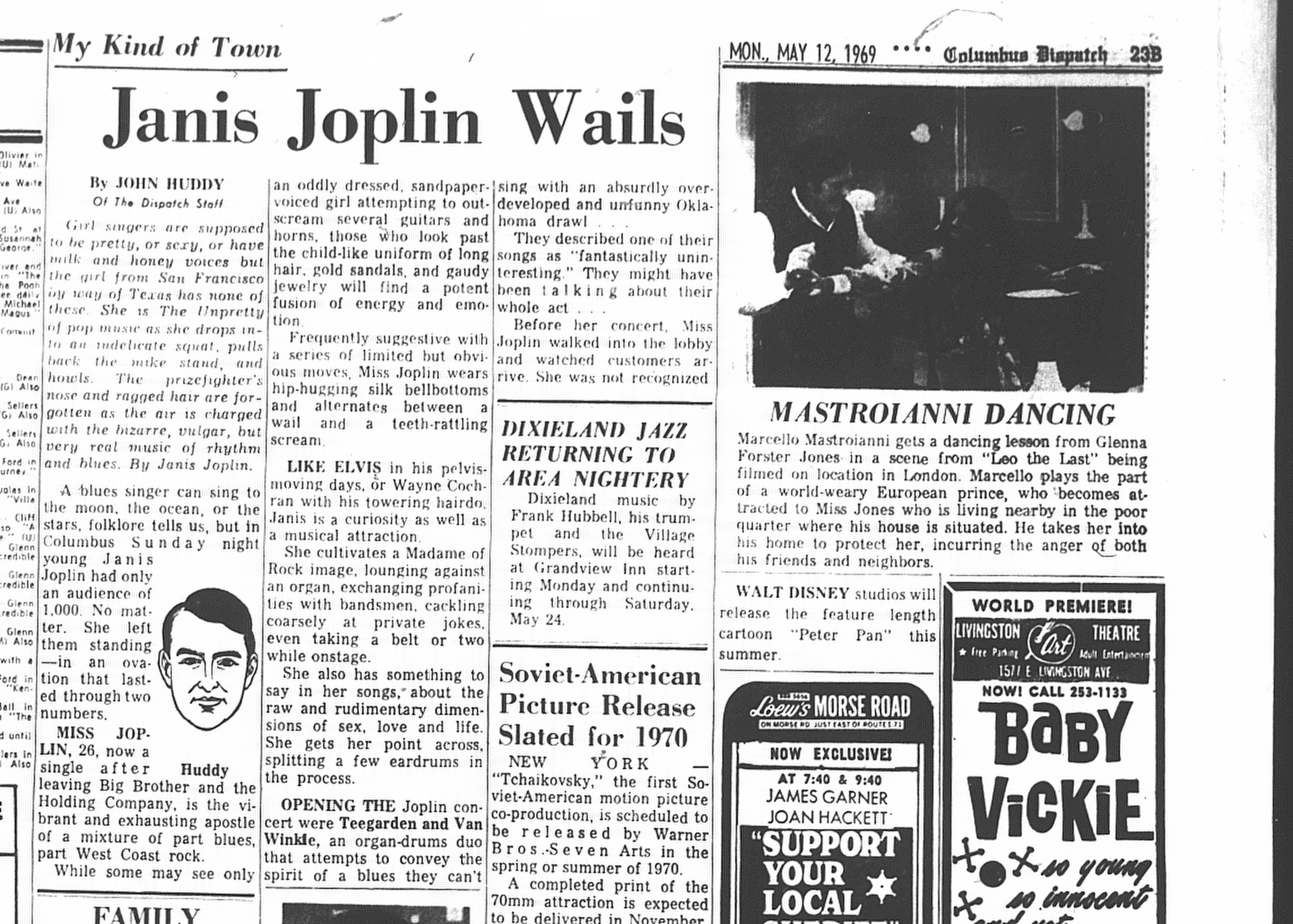 digital scan from microfilm that I created and saved to my flash drive